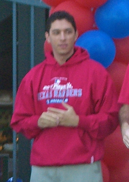 Texas Rangers GM Jon Daniels at a gathering in 2010. This file has been extracted from another file: Ranger Red Round-up 10-1-10.jpg